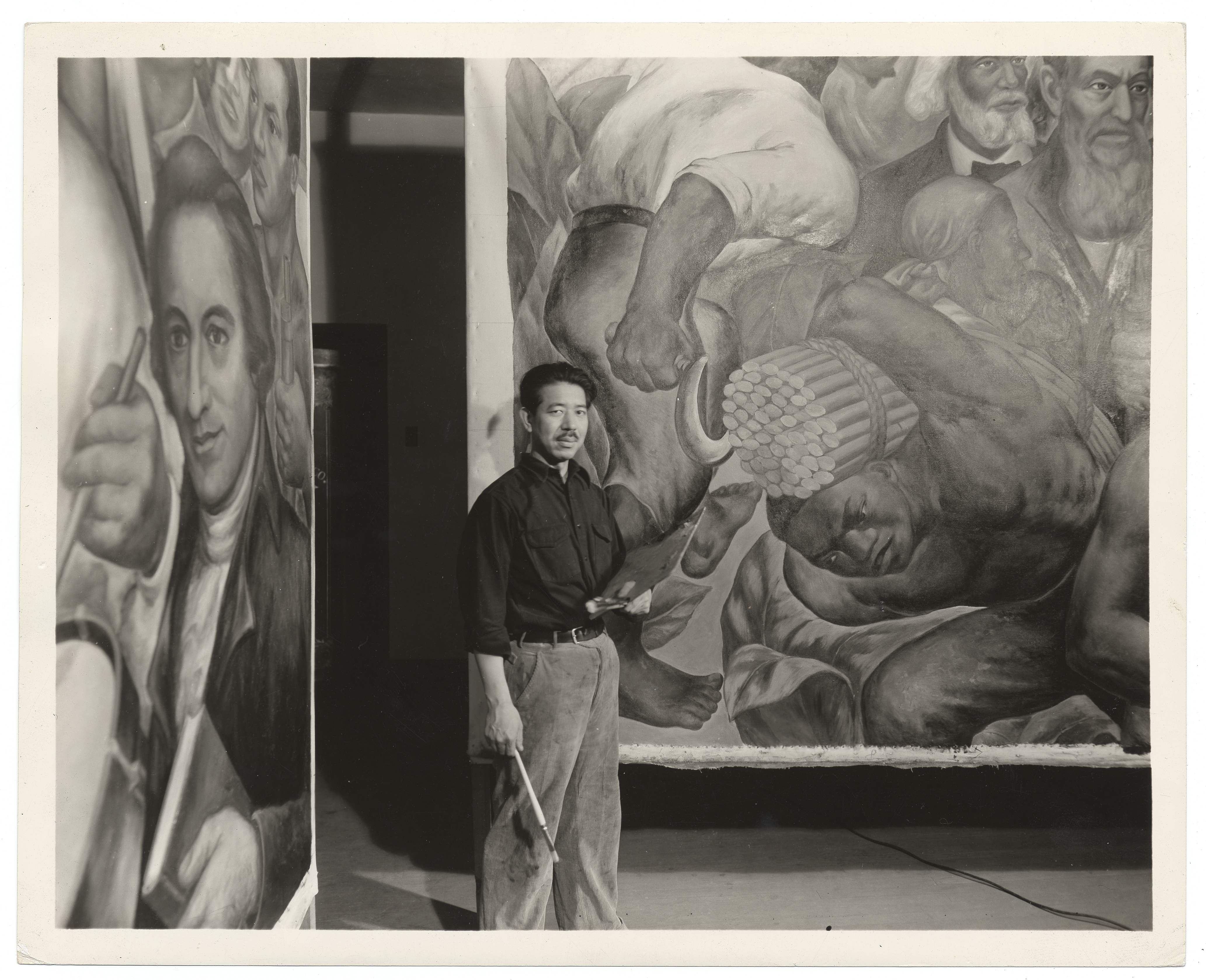 Ishigaki standing before his painting. Identification on verso (handwritten and stamped): Federal Art Project W.P.A.; Photographic Division; 13 East 37th St. New York City Location: Harlem Court; Artist: Eitaro Ishigaki; Negative No.: P246D